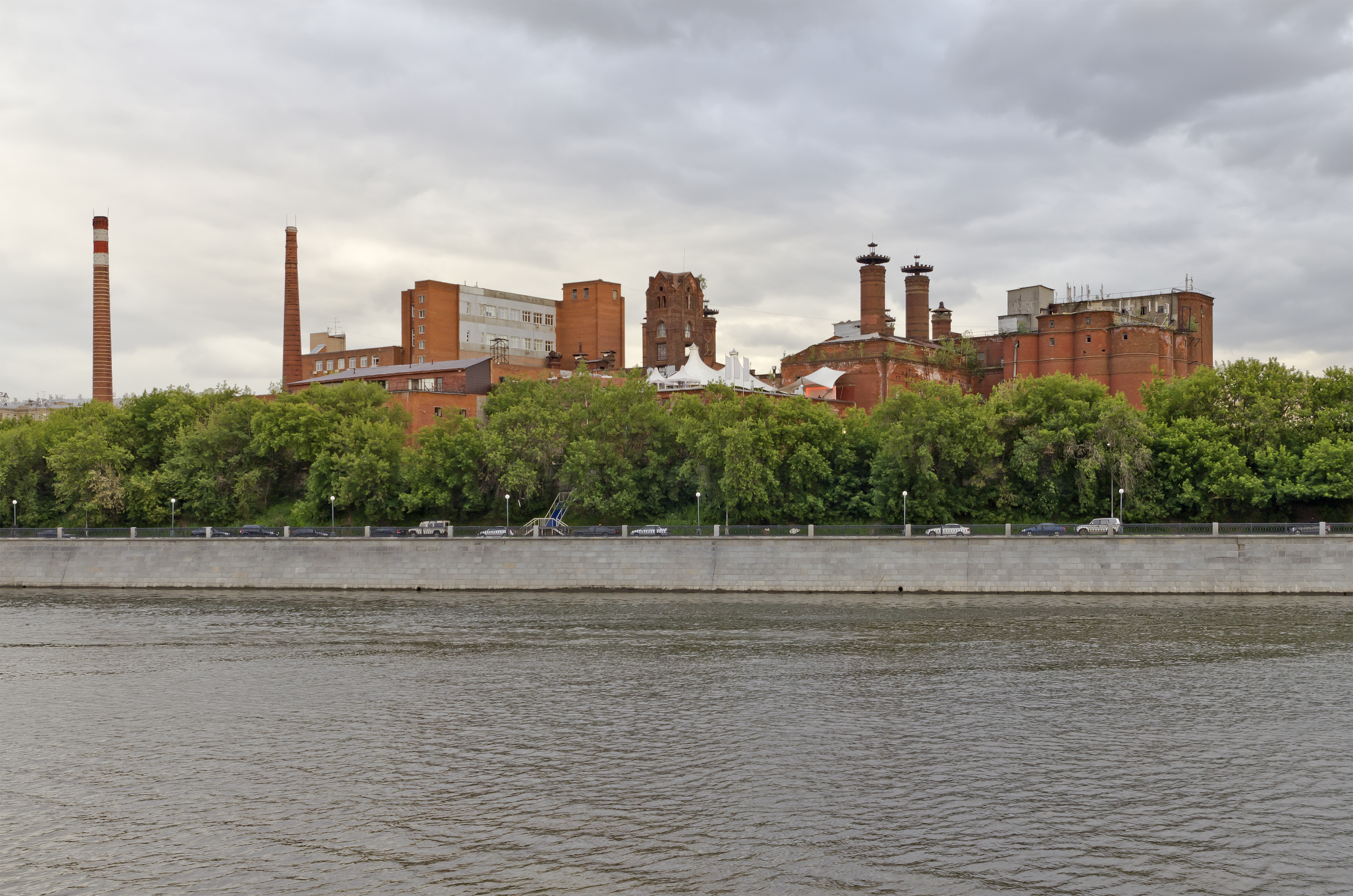 Former Badaev Brewery in Dorogomilovo, Moscow